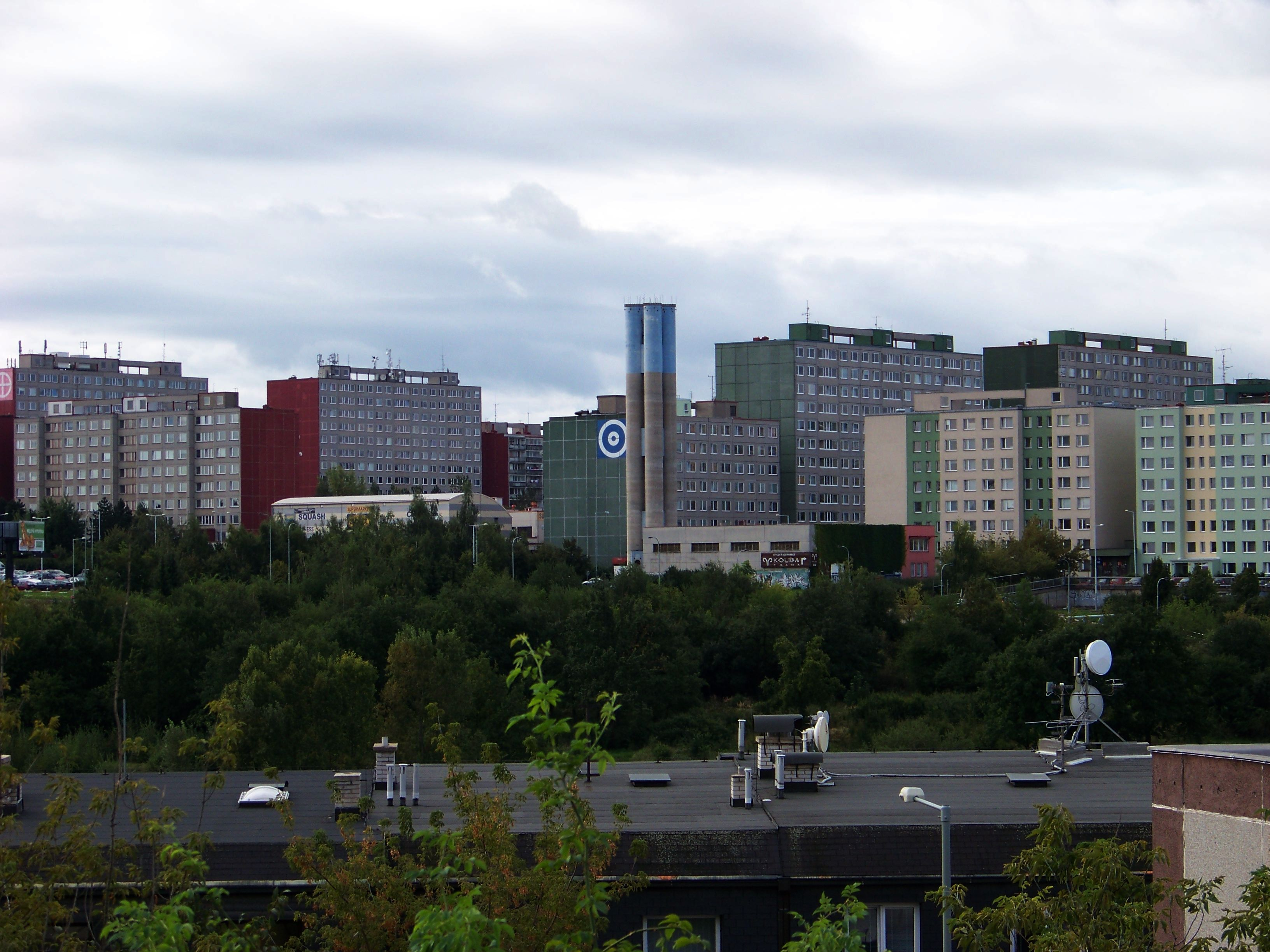 Prague, the Czech Republic. A view from earth berm near Roztyly to Horní Roztyly Housing Estate.